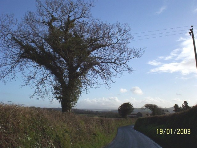 Holly tree near Trehill Growing on a typical Cornish hedge - looks soft but has a heart of stone!